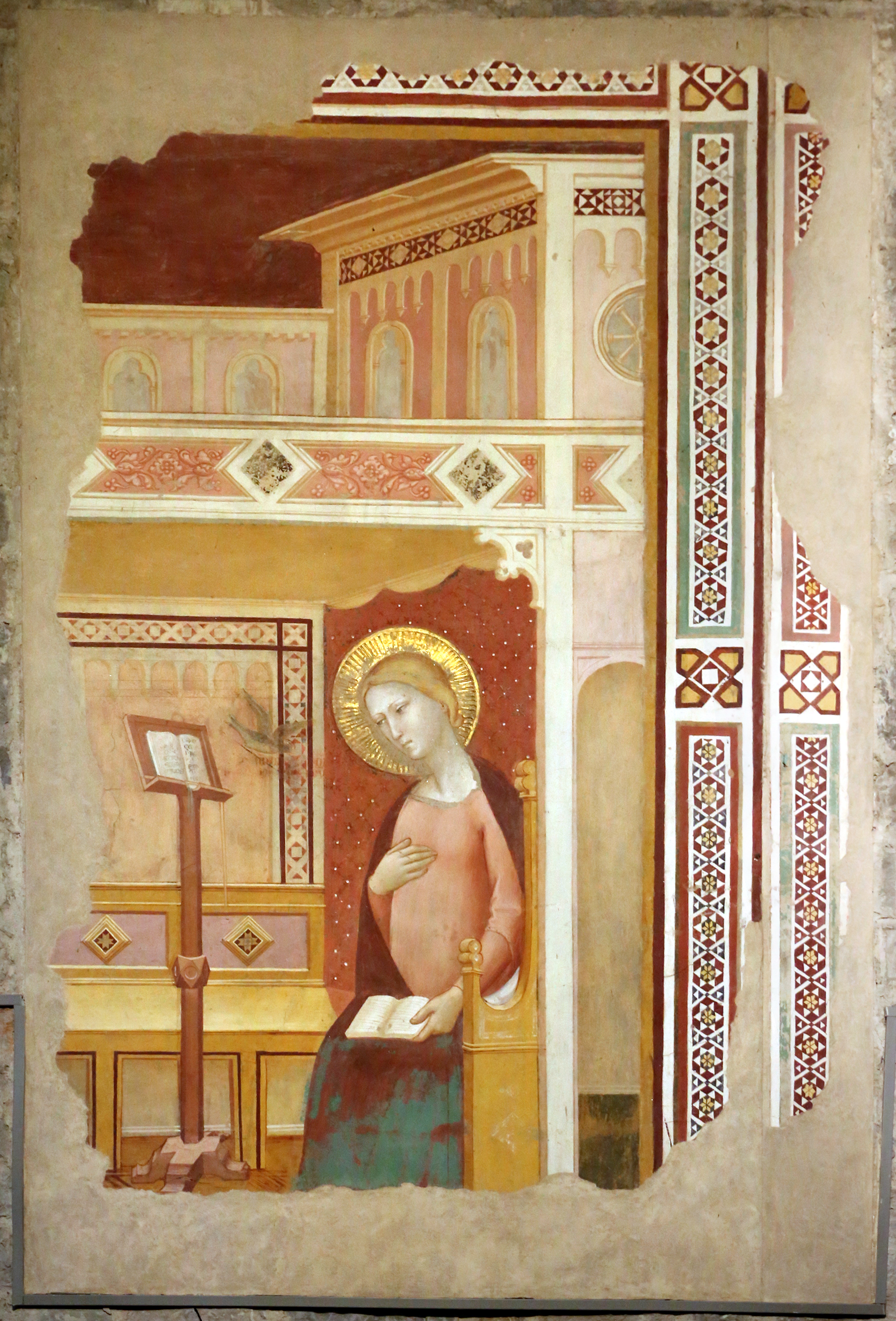 San Pietro a Ripoli